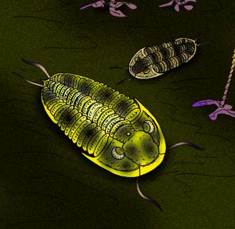 Cropped image of taxon in file name